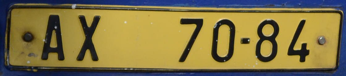 Czechoslovak registration plate for commercially used vehicle